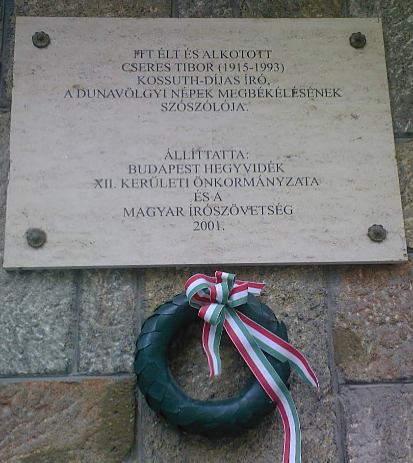 Tibor Cseres commemorative plaque in Budapest District XII, Tartsay Vilmos Street No 20.